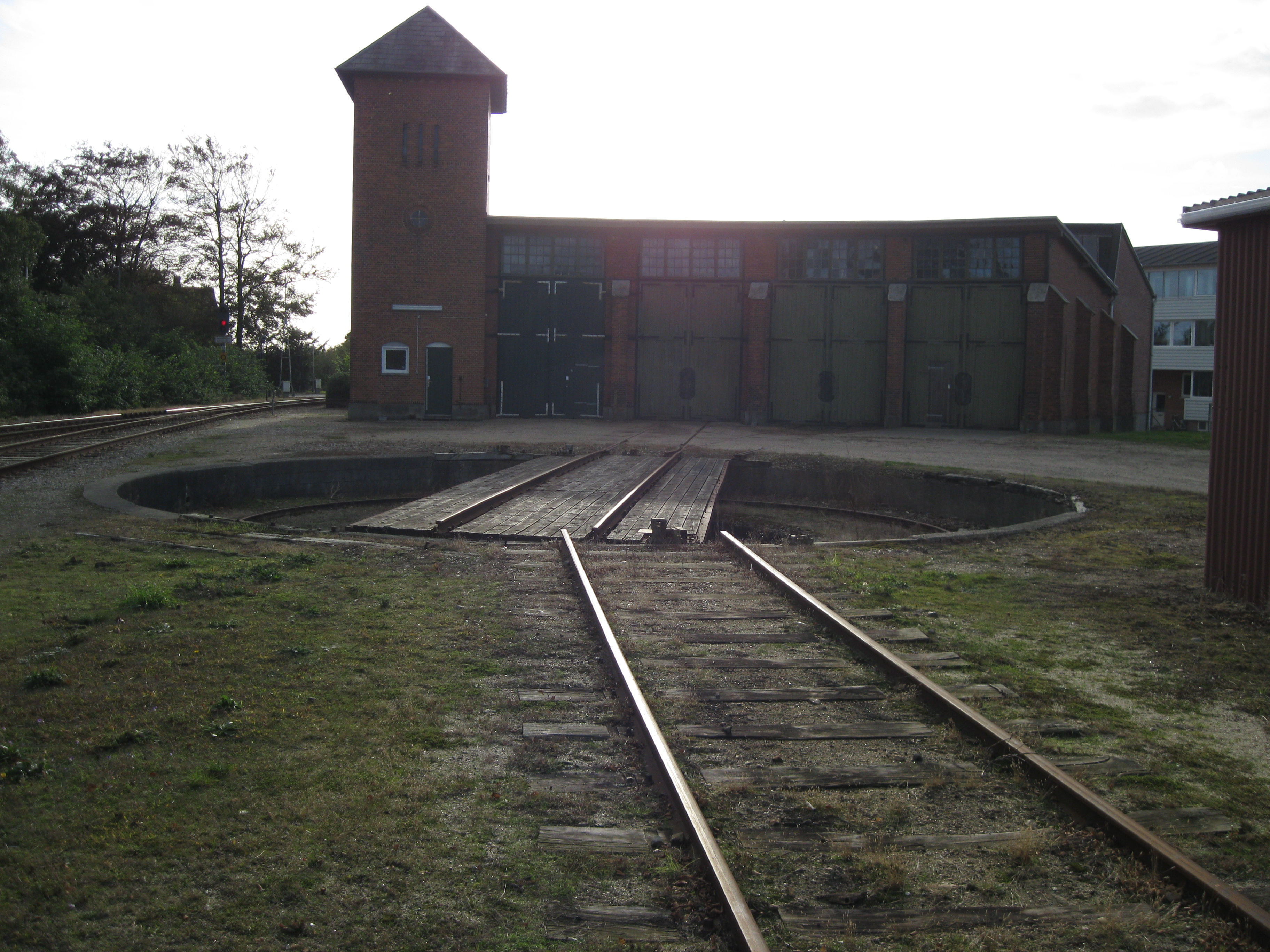 Varde Vest Station, Varde, Denmark